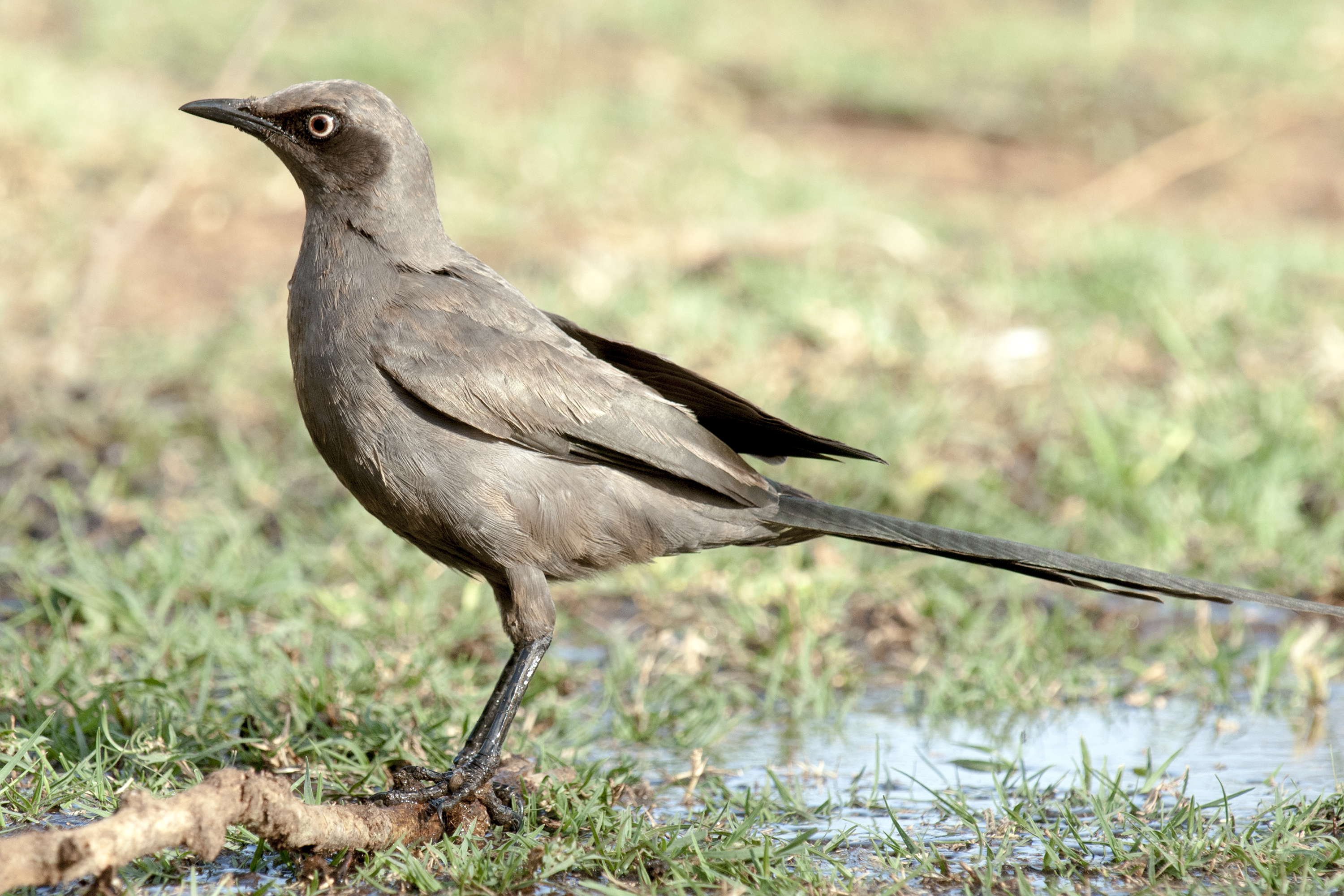 Ashy starling in the Serengeti National Park